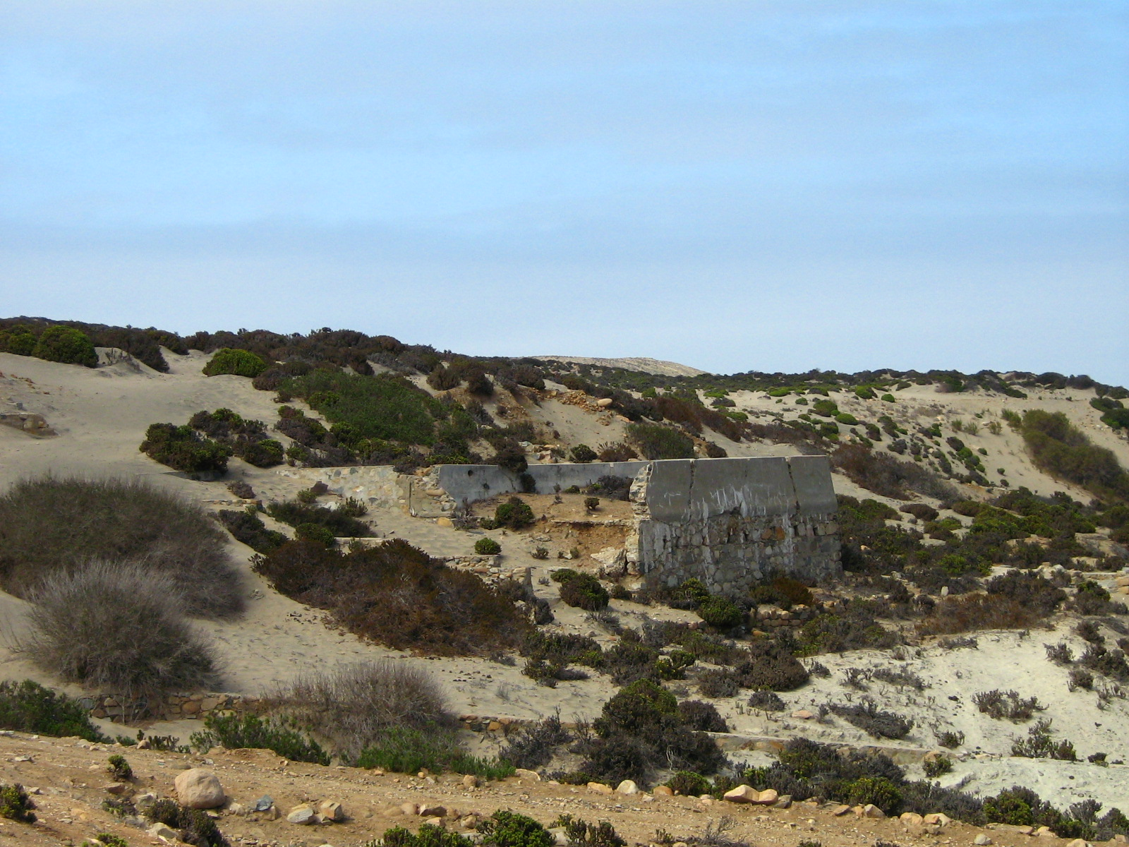 old Gold Washer